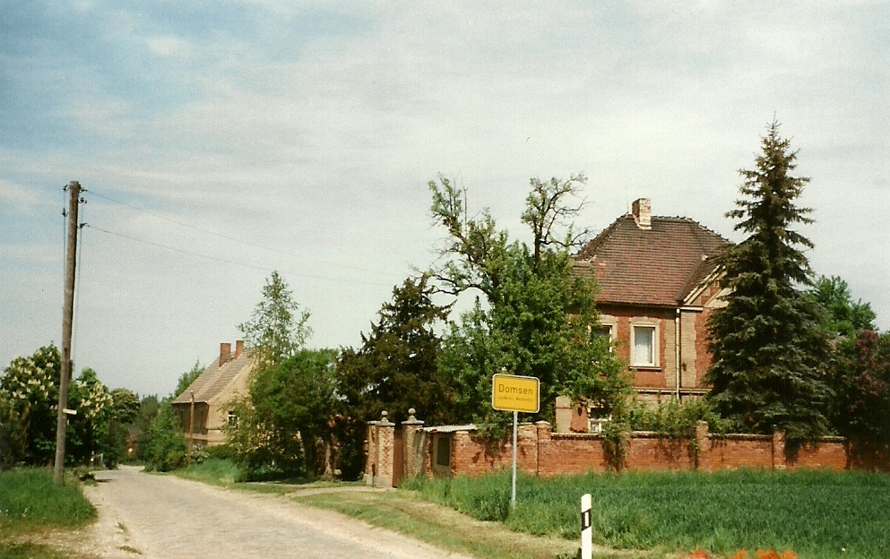 The village of Domsen in the Großgrimma municipality in the south of Saxony-Anhalt in 1998, demolished later for the development of the Profen opencast mine.